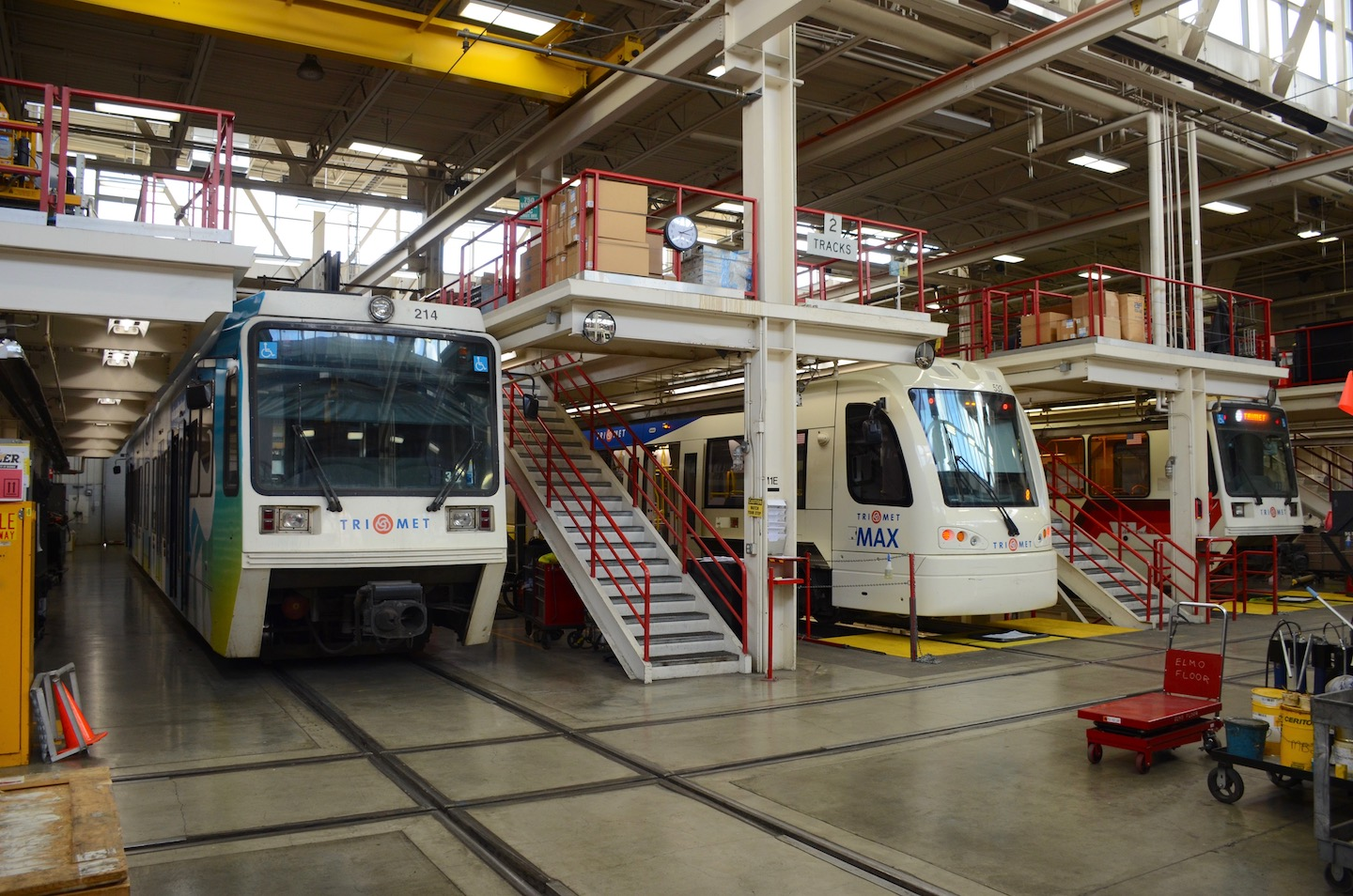 Interior of TriMet's Elmonica MAX maintenance and operations facility in 2018, during a visit by a transit group. The three LRVs (light rail vehicles) in the photo are two TriMet Type 2 cars (Siemens SD660) and, in the middle, one Type 5 (Siemens S70).